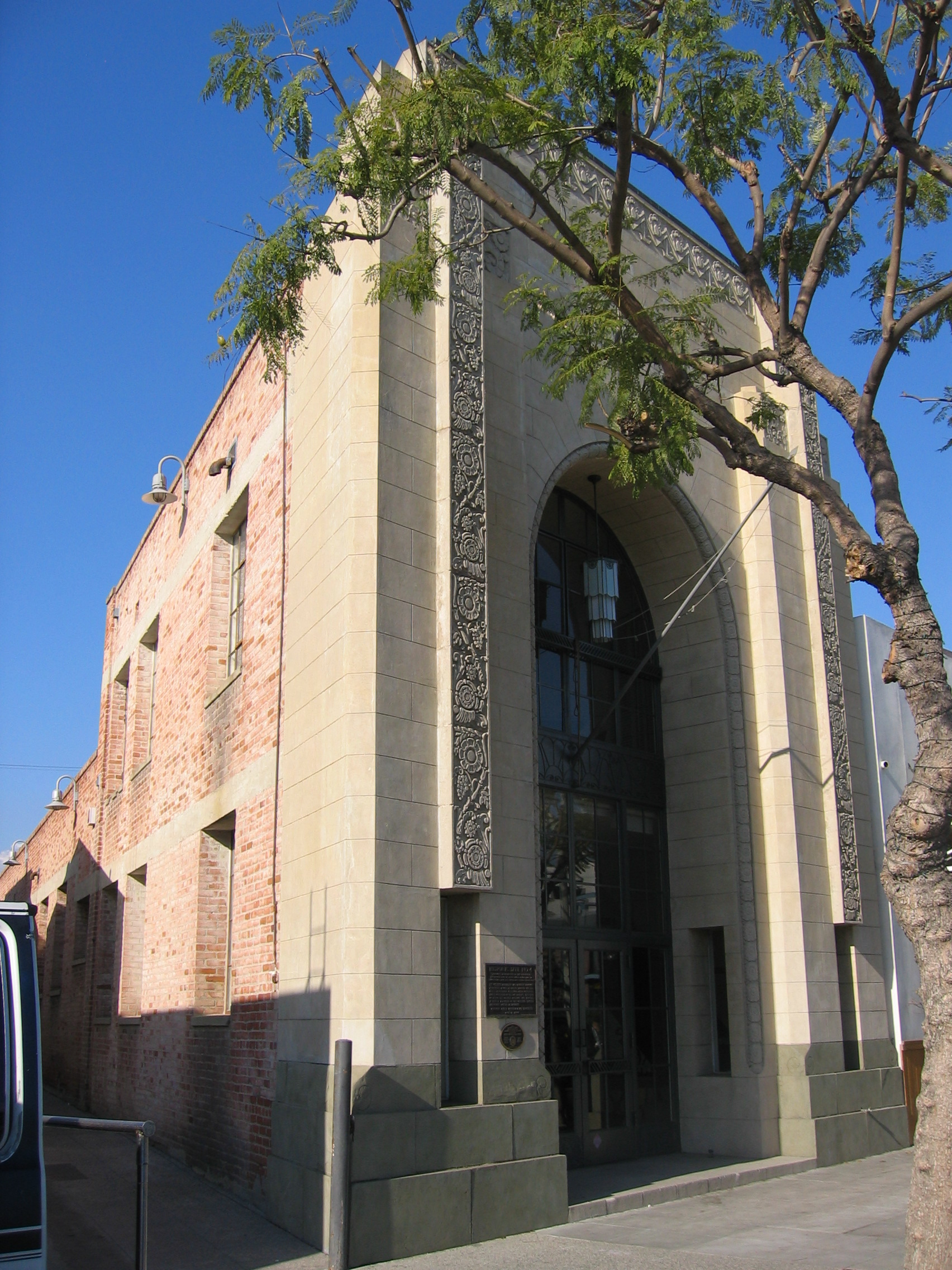 More information on the Citizen Building is available on the Culver City website .